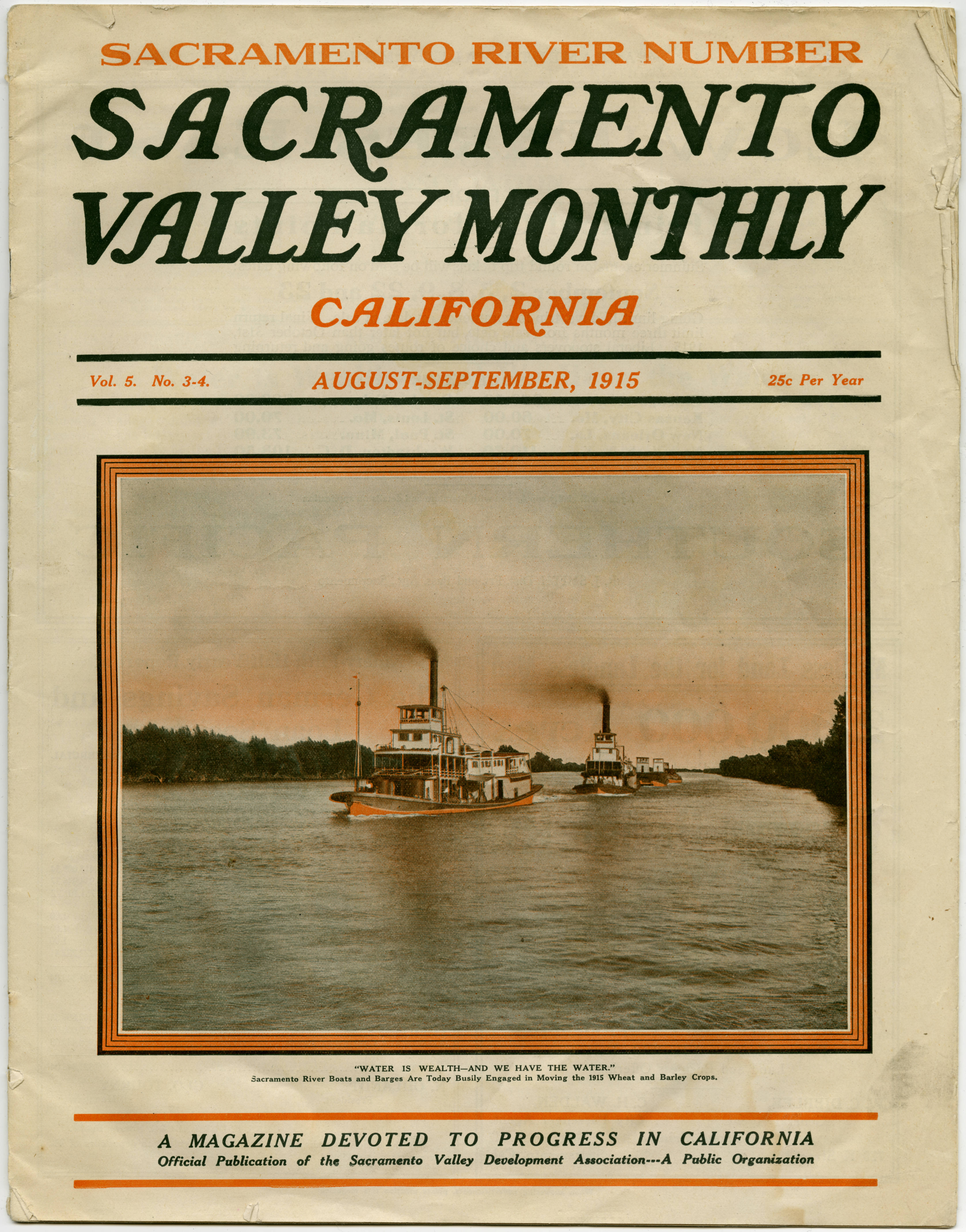 Sacramento Valley Monthly, August-September 1915